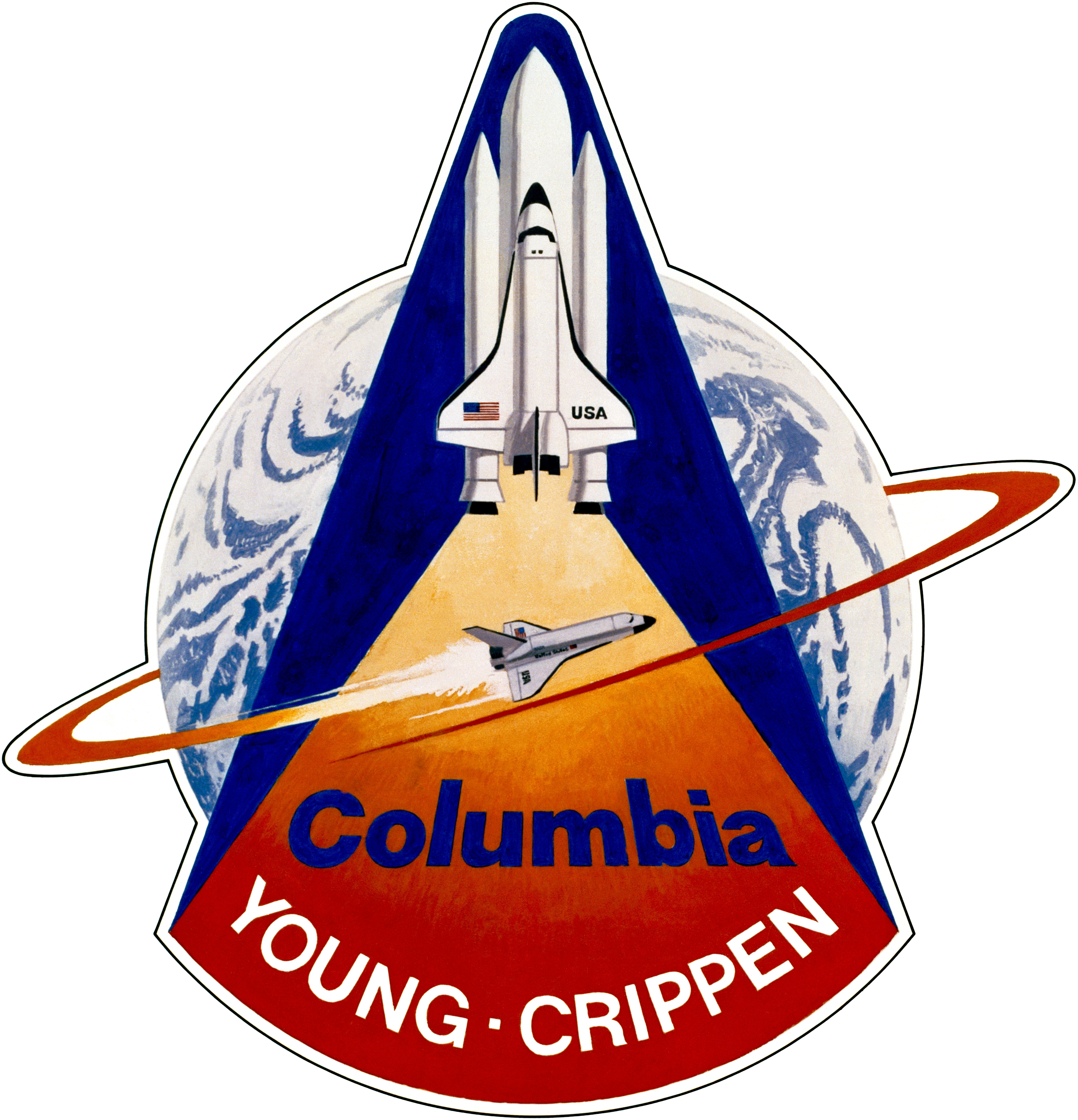 STS-1 CREW PATCH This is the official insignia for the first Space Shuttle orbital flight test (STS-1). Crew of the 102 Columbia on STS-1 was Astronauts John W. Young, commander, and Robert Crippen, pilot. The art work was done by artist Robert McCall.